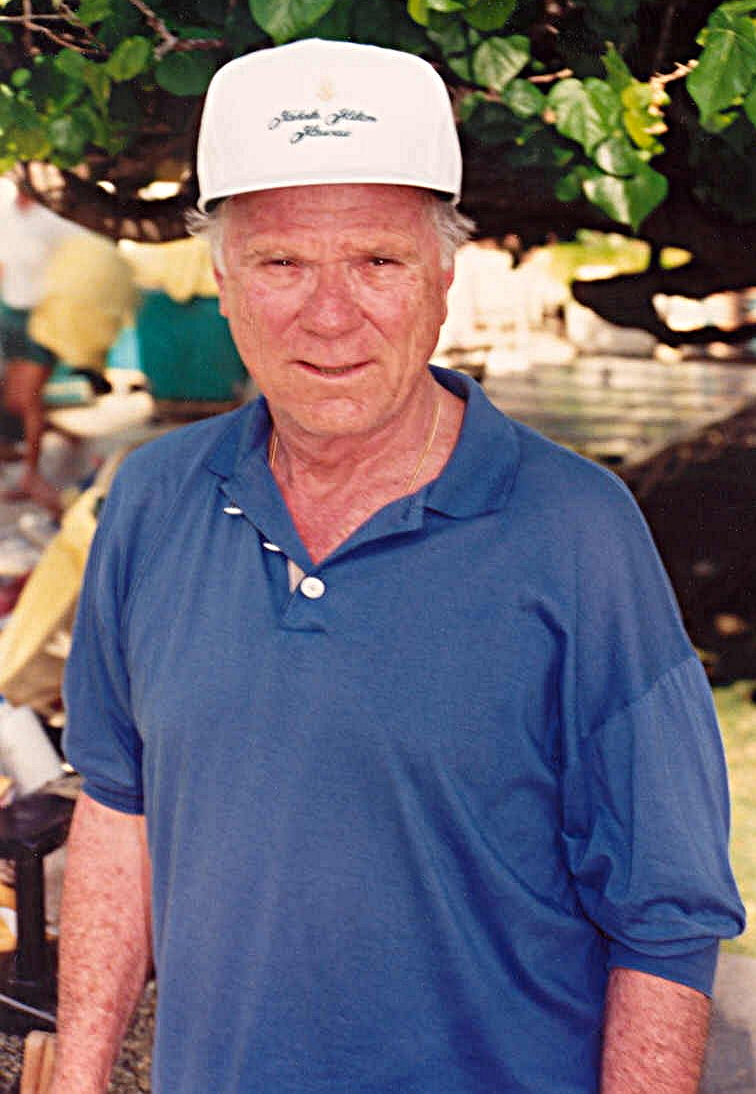 Photo of Jackie Cooper.